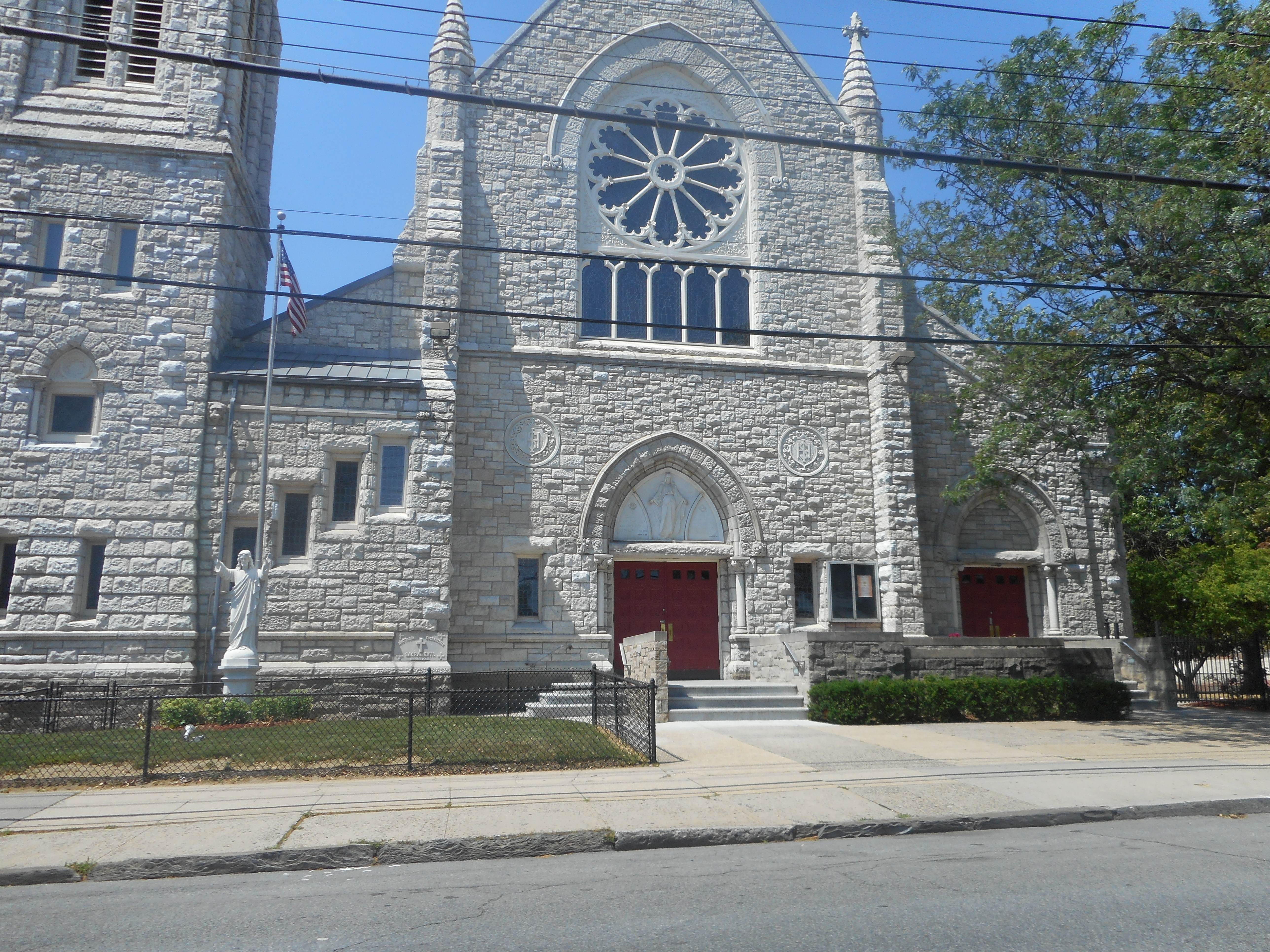 A contemporary driver's side view of the Blessed Sacrament Church in New Rochelle, New York, south of US 1. I didn't know if the church had any historic significance or not, but at the time I was desperately trying to find random sites in New Rochelle that might've seemed interesting. As it turns out, the place is in fact a New Rochelle Historic Site.